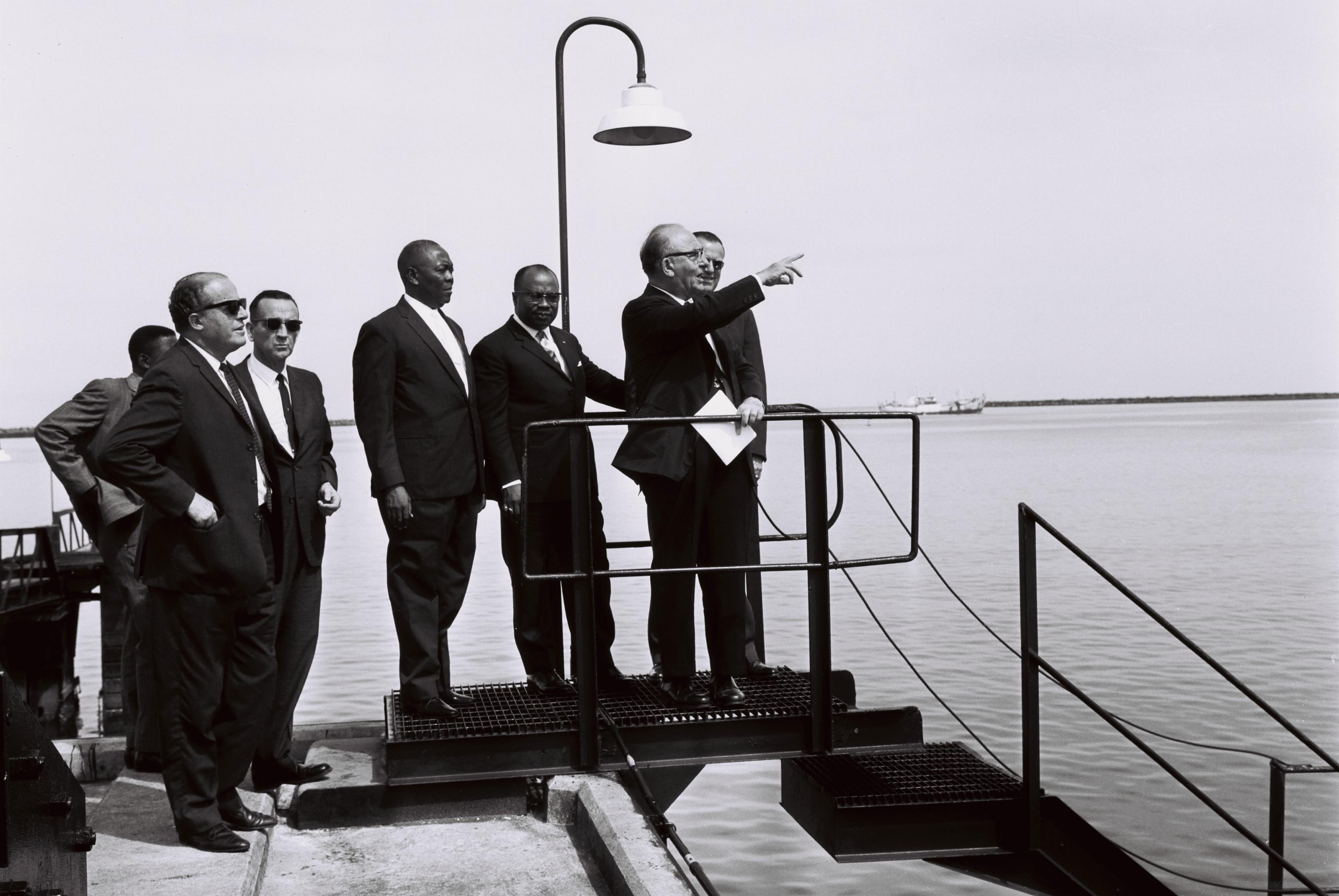 PRIME MINISTER LEVY ESHKOL IN THE HARBOUR OF MONROVIA, DURING HIS VISIT IN LIBERIA.